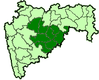 Districts of the Marathwada region of Maharashtra, corresponding to Aurangabad division. Based on the district maps series created by Nichalp and released by him into the public domain. QuartierLatin1968 21:56, 23 October 2005 (UTC)